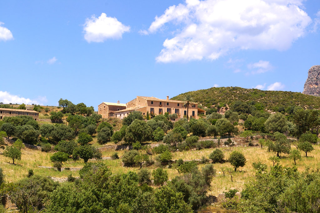 Finca